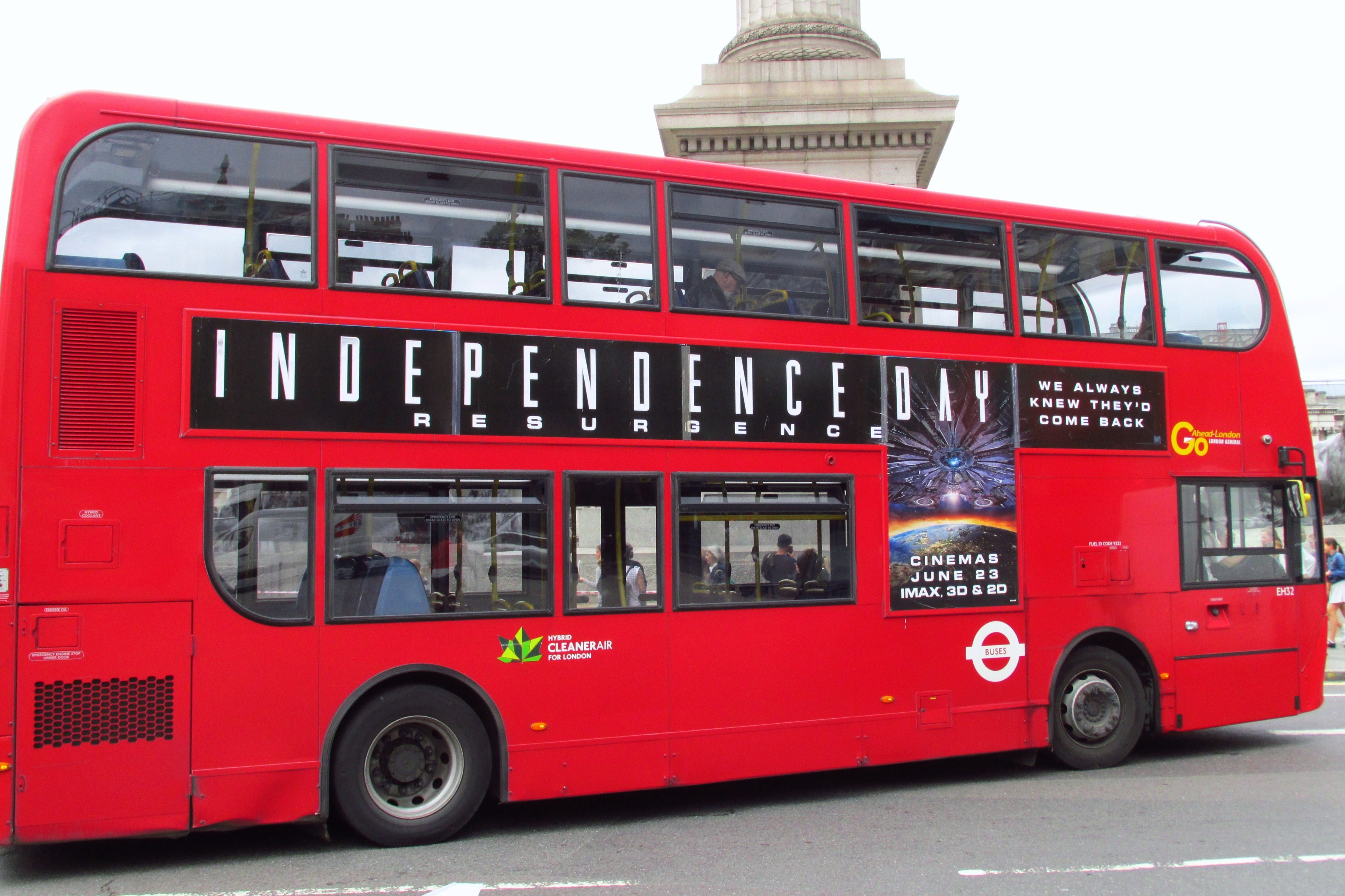 London June 21 2016 070 Independence Day Resurgence (5)